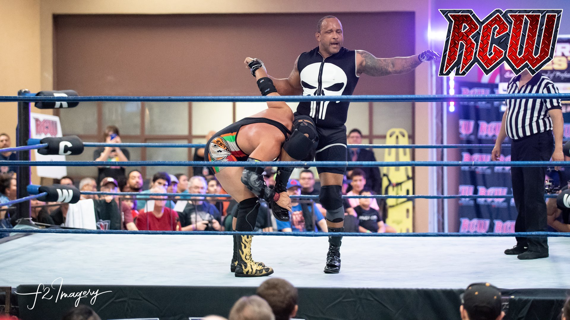 MVP performing his finisher